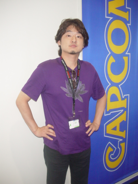 Atsushi Inaba at the Games Convention 2004 in Leipzig / Germany